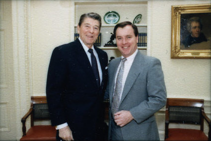 President Ronald Reagan and Bill Carney (4-18) Photo Op. With Congressman Bill Carney President Ronald Reagan, Al Kingon, James Miller, Ralph Stanley, and B.F. Backlund (19-30) Report on White House Conference on Small Business President Ronald Reagan (31-33) Photo Op. With unidentified man